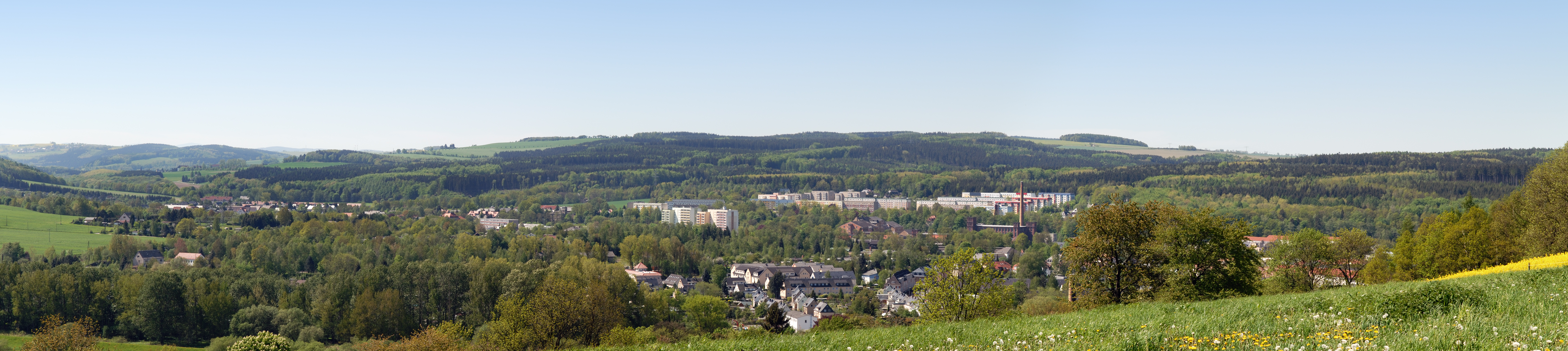 This image shows the town Flöha, Germany, as seen from the Pomselberg ("pomsel hill"). It is a three segment panoramic image.